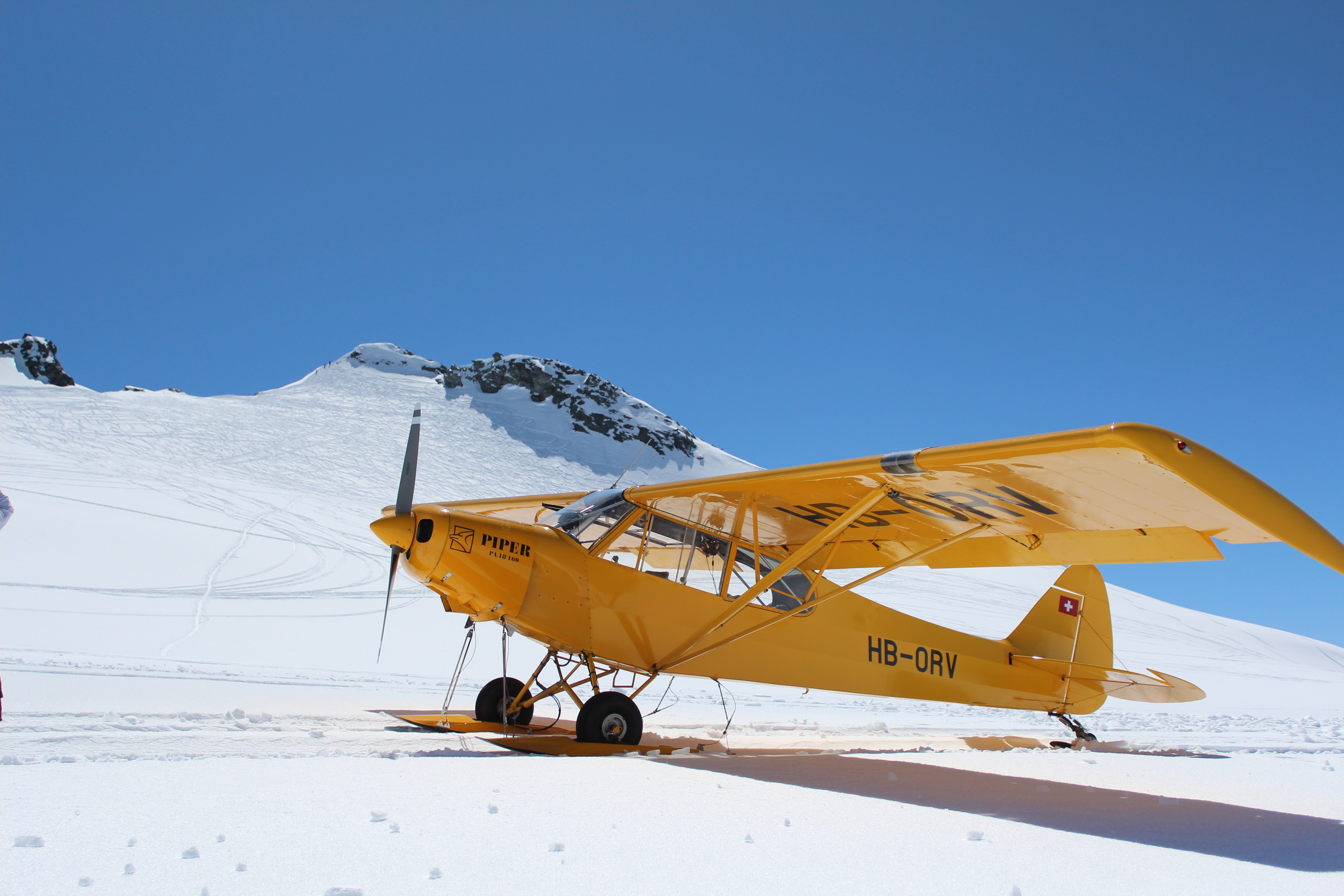 Piper PA-18 landing at Trient glacier in switzerland